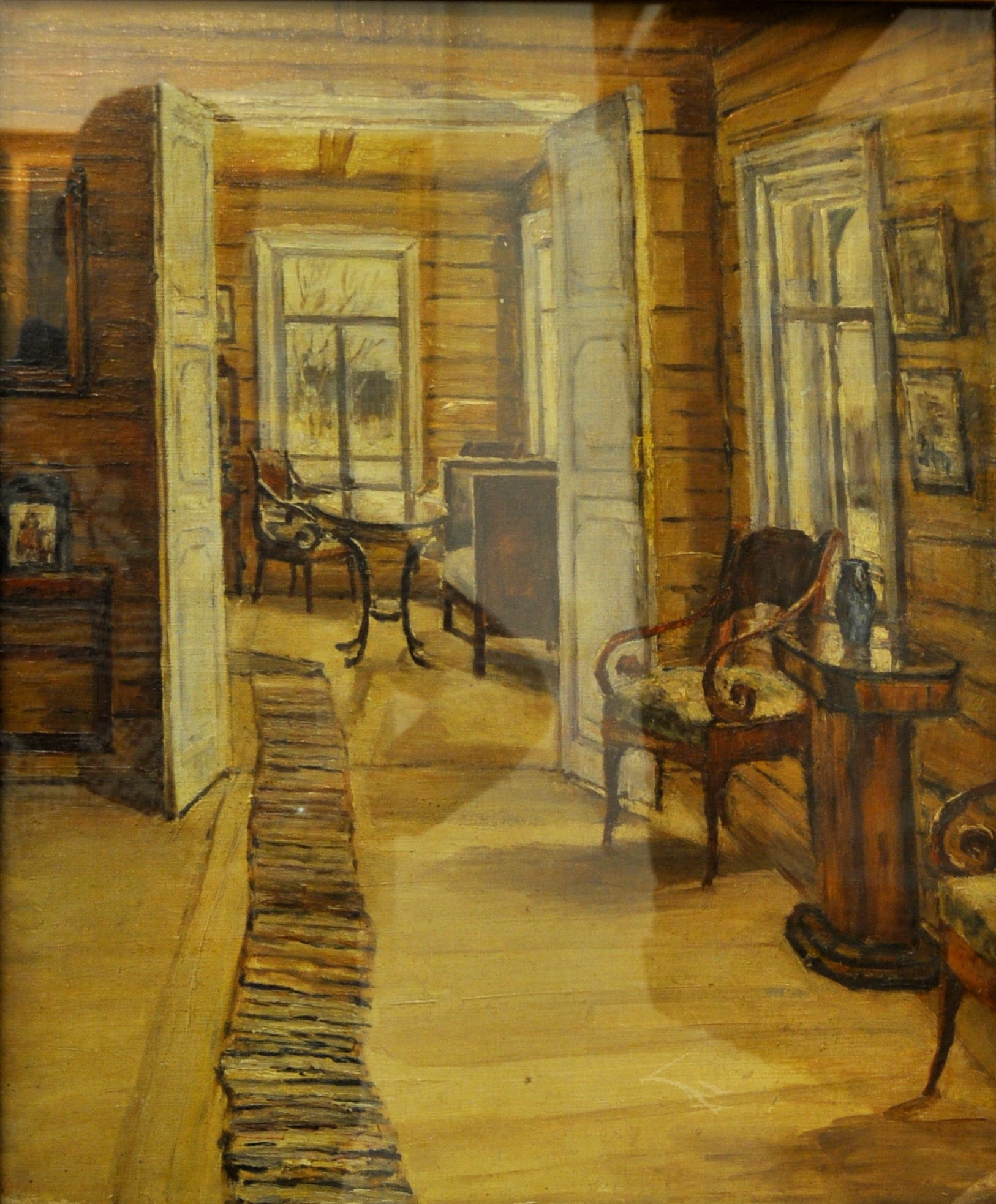 Anna Karinskaya. Murmanovo Interieur, 1915. VOKG